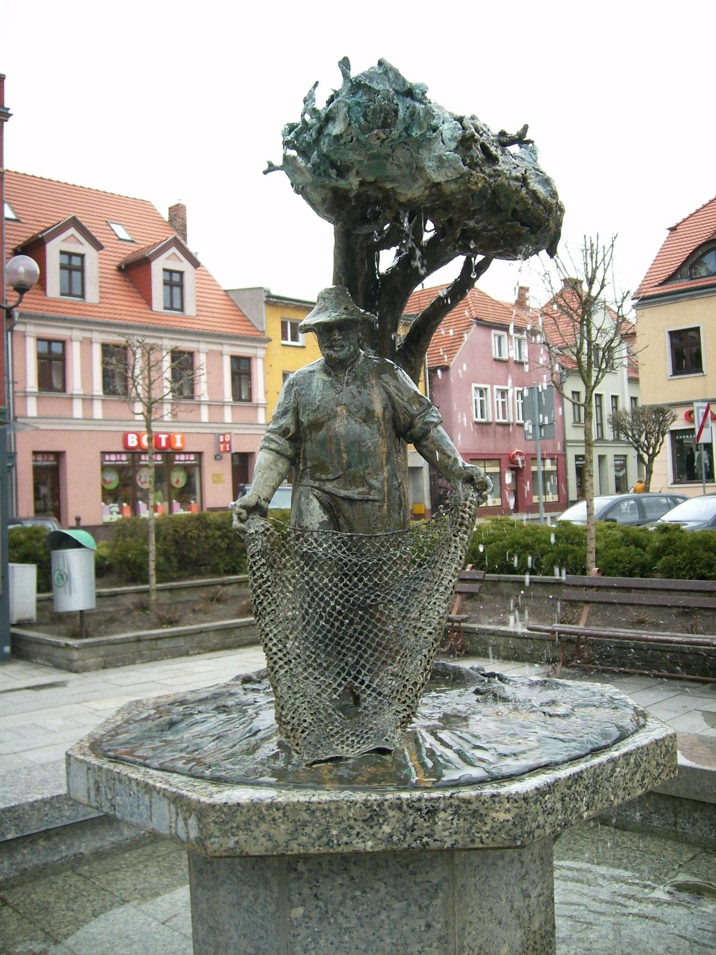 fountain on the market place of Międzychód